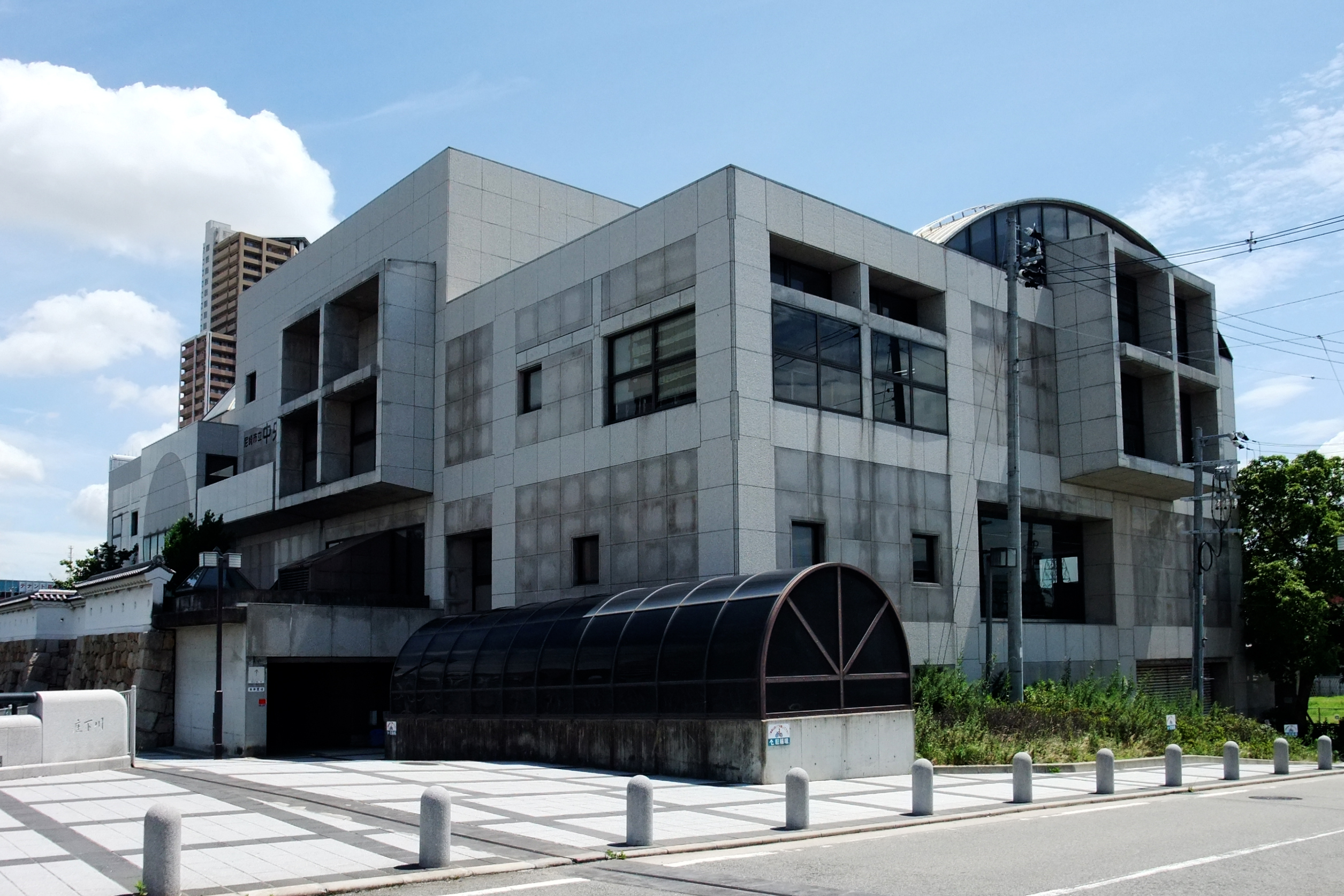 Amagasaki City Library in Amagasaki, Hyogo prefecture, Japan